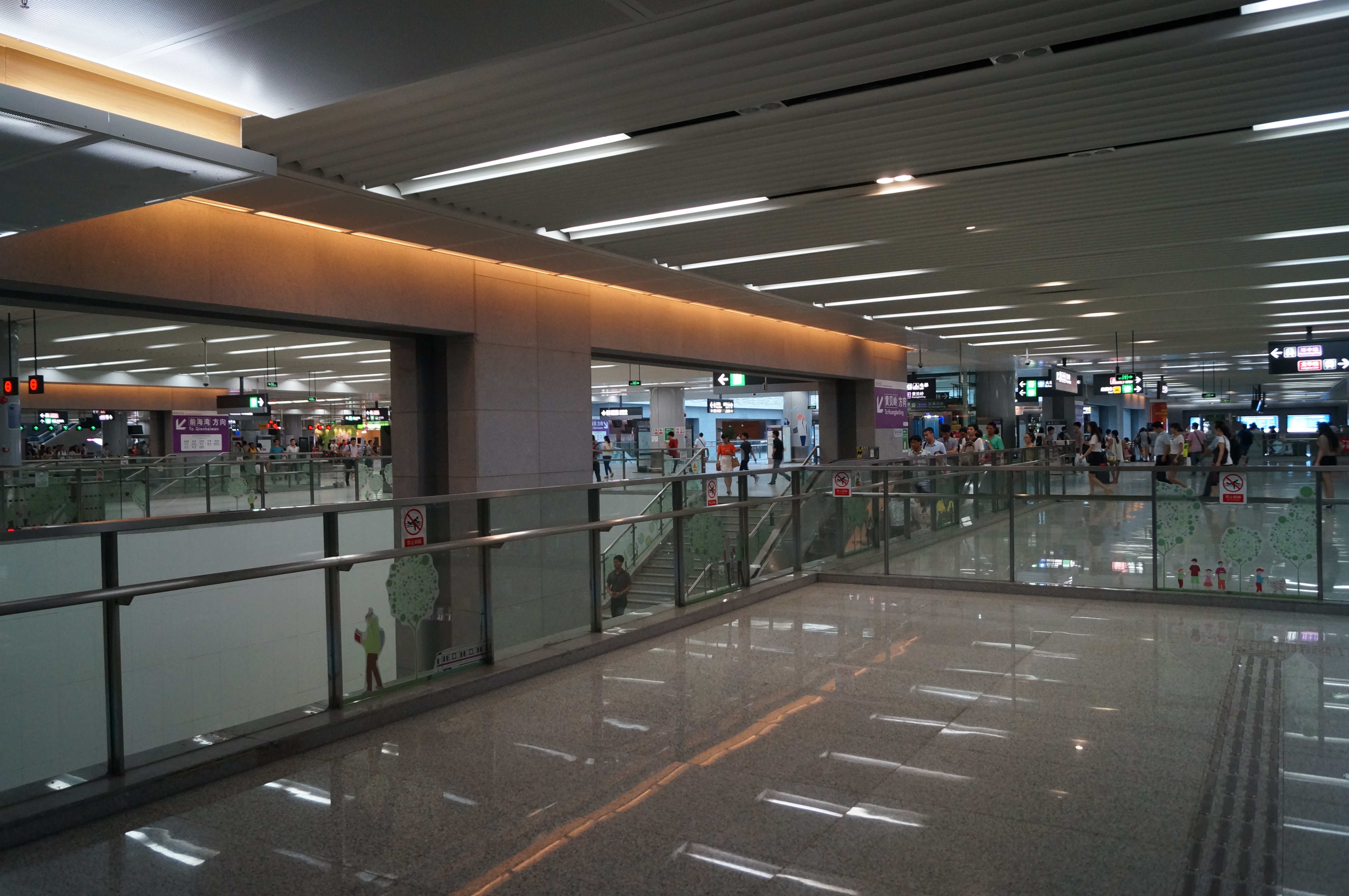 Shenzhen North Metro Station Concourse, Huanzhong Line.